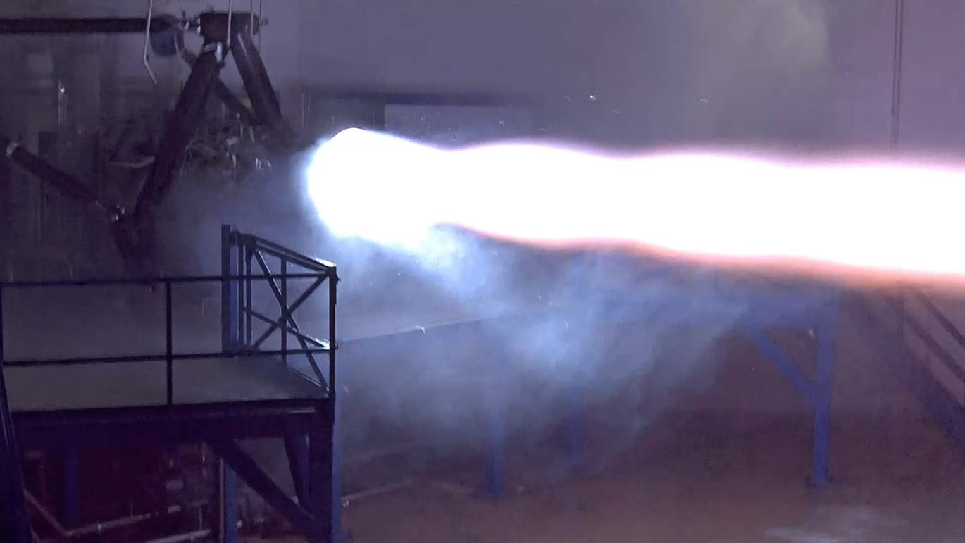 First test firing of the SpaceX Raptor engine